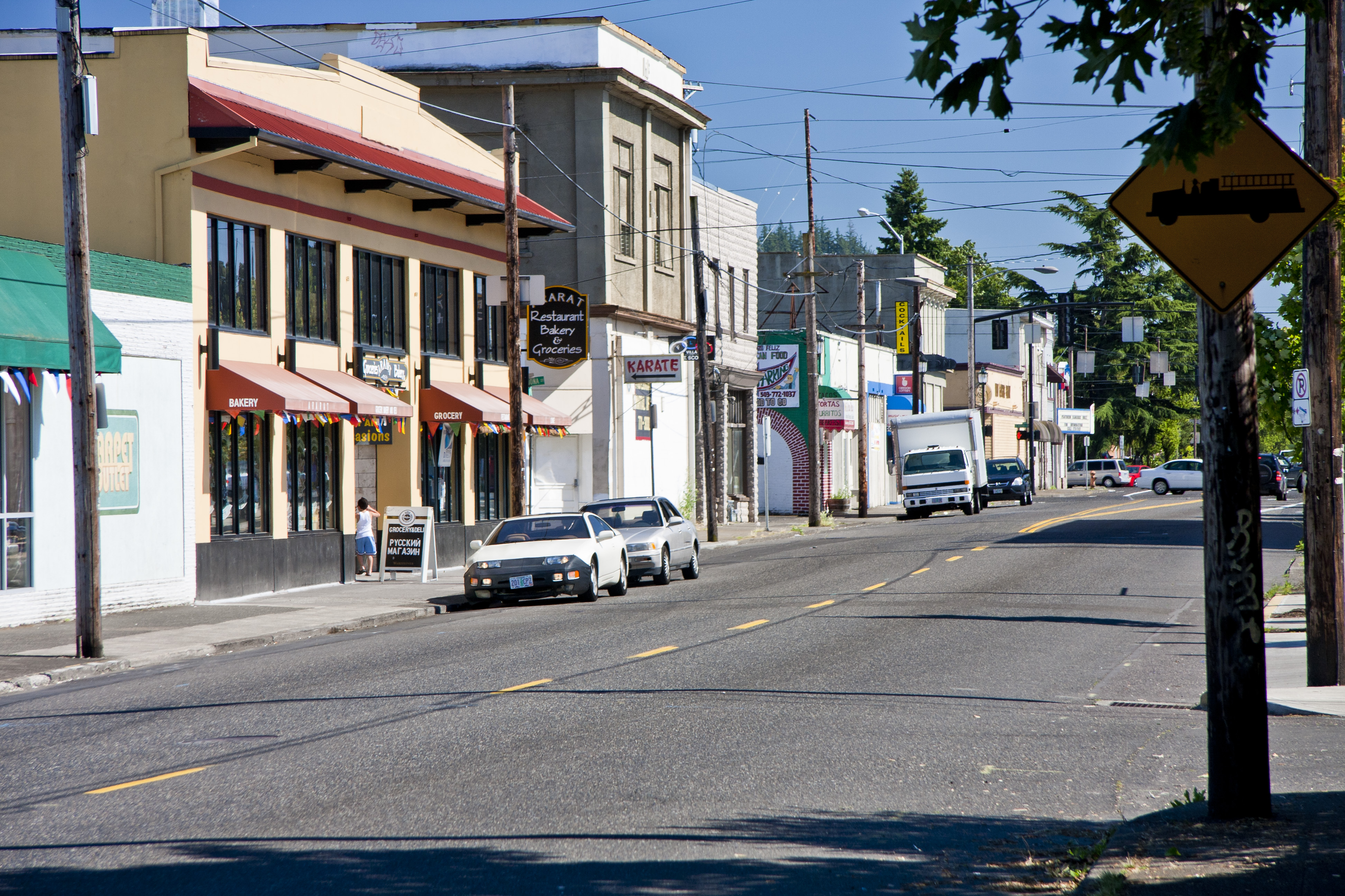 View of the Lents Town Center along 92nd Ave, facing south towards Foster Blvd.